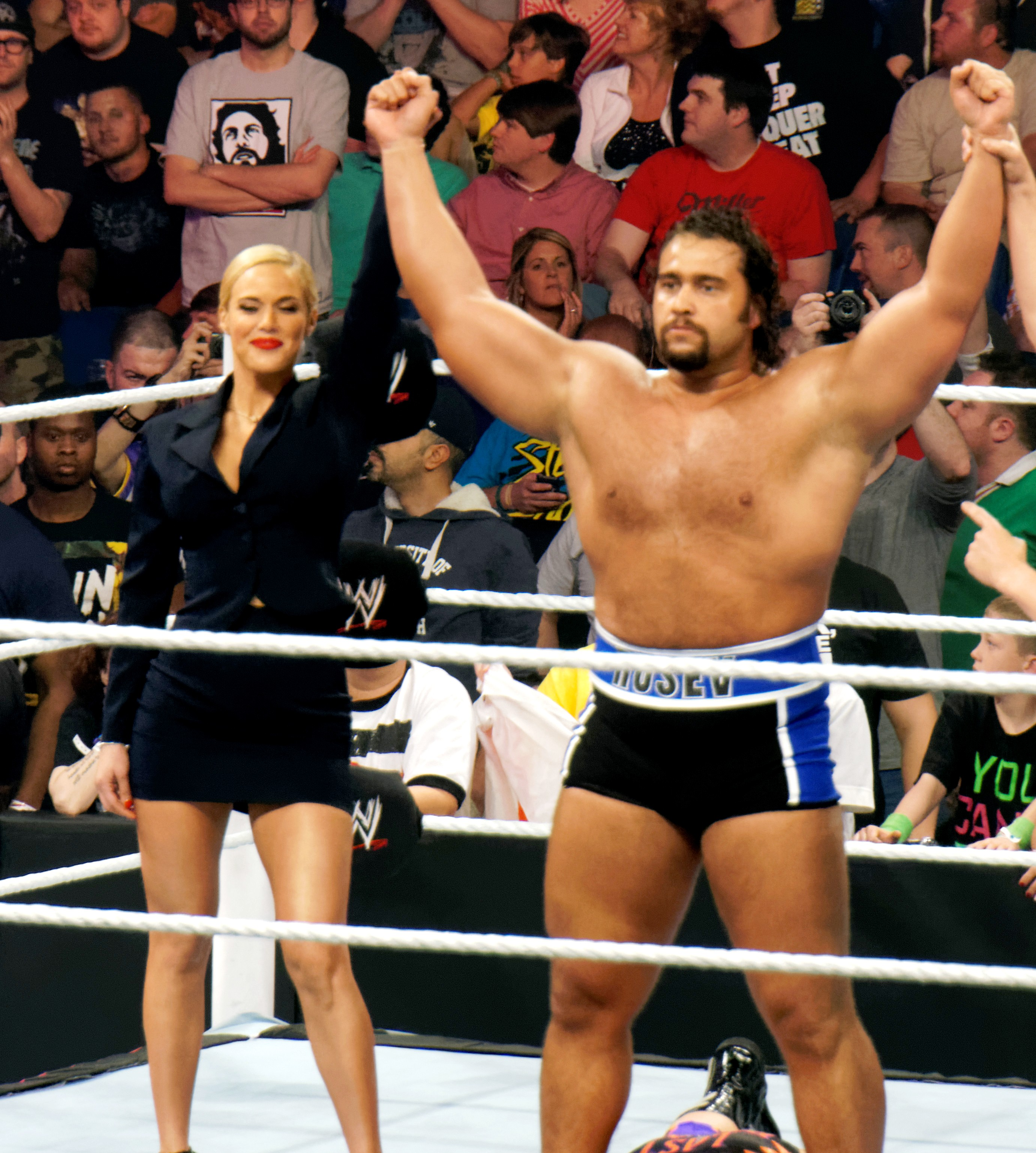 Lana and Alexander Rusev on Raw on April 7, 2014. Cropped from original.